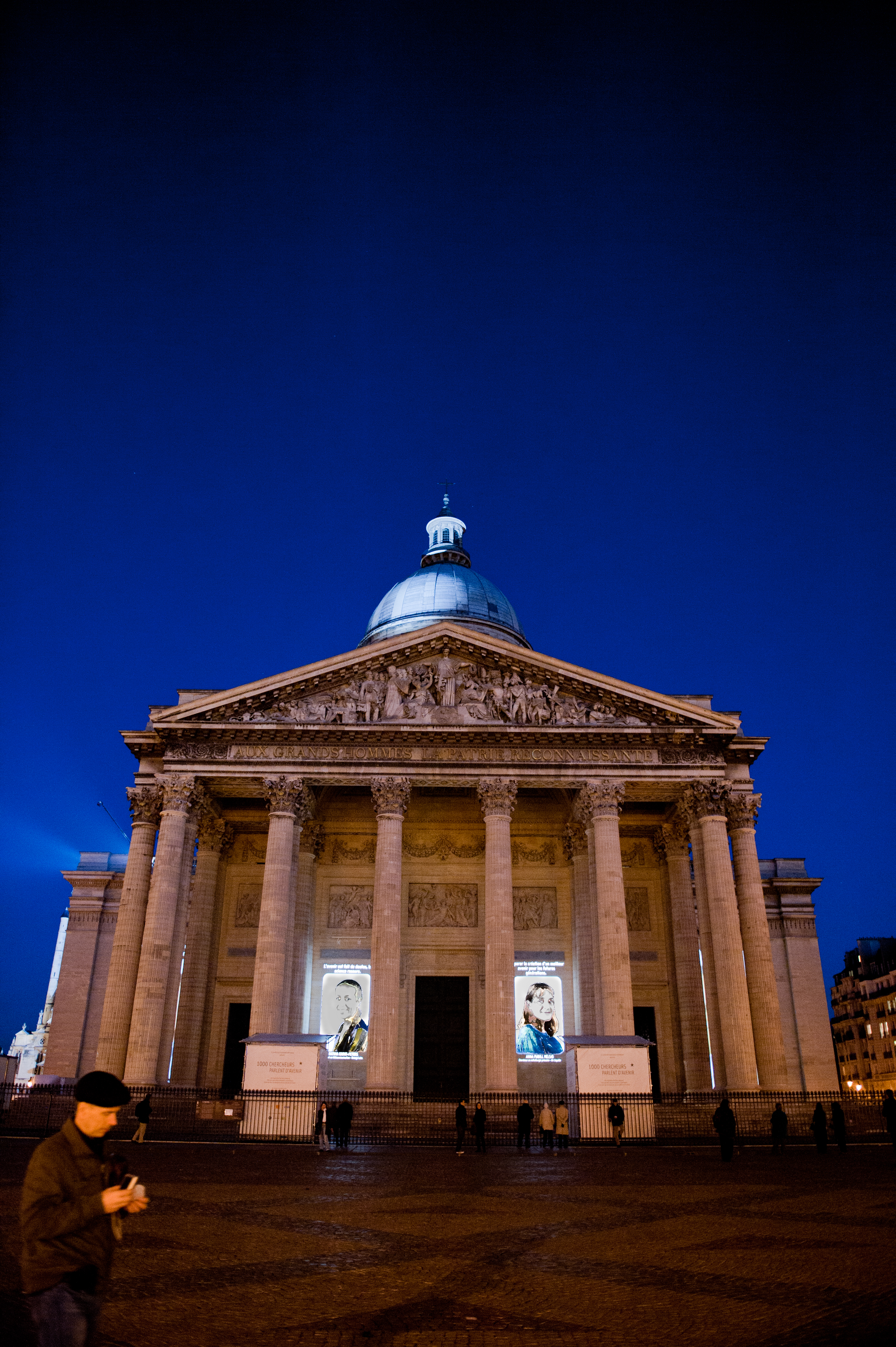 Facade of the Pantheon in Paris during the 1000 exhibition of future researchers talk